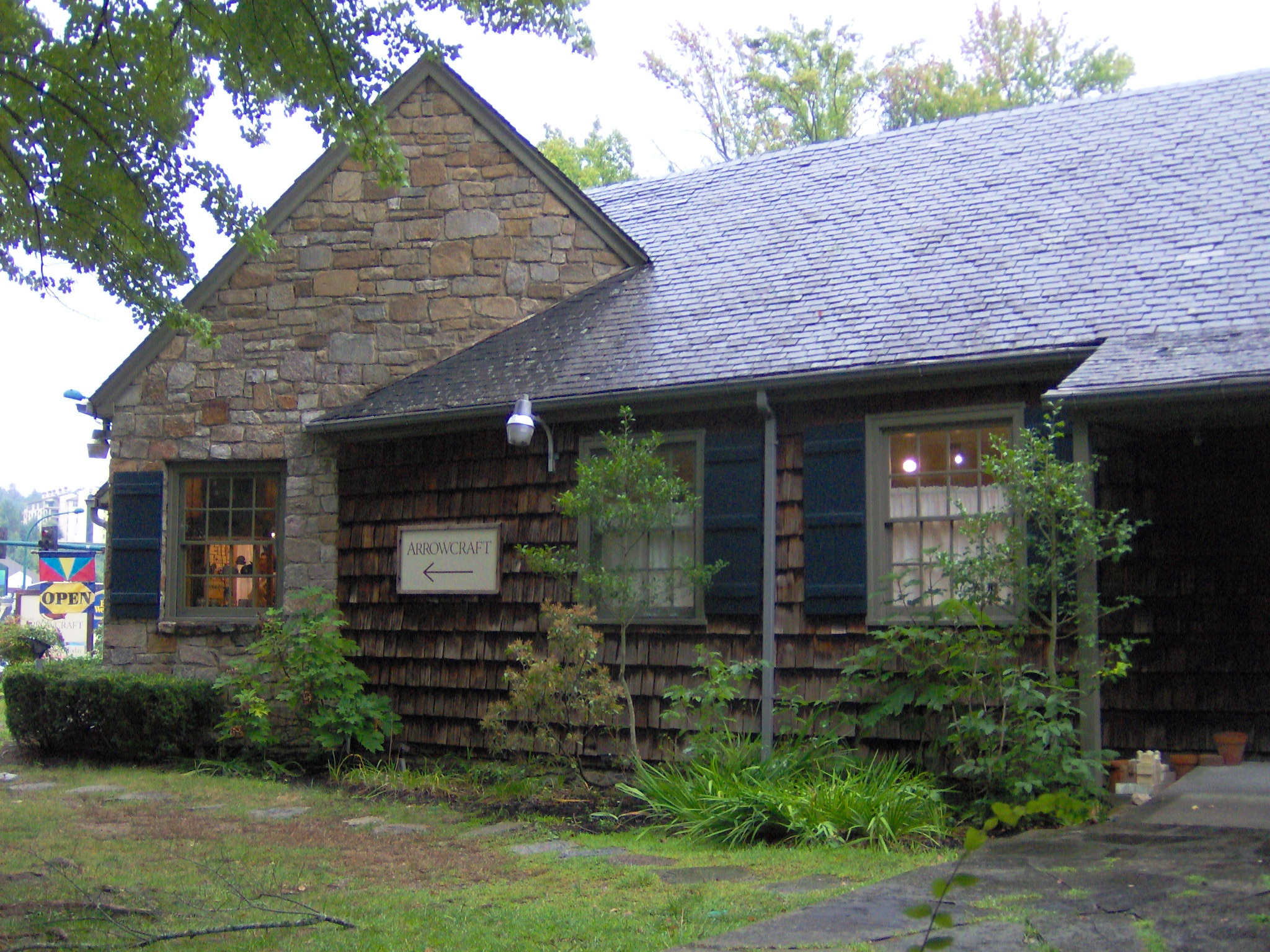 The Arrowcraft Shop on the Arrowmont School of Arts and Crafts campus in the U.S. city of Gatlinburg, Tennessee.